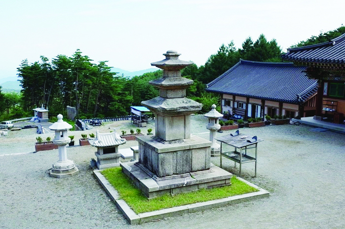 Simwon temple in South Korea